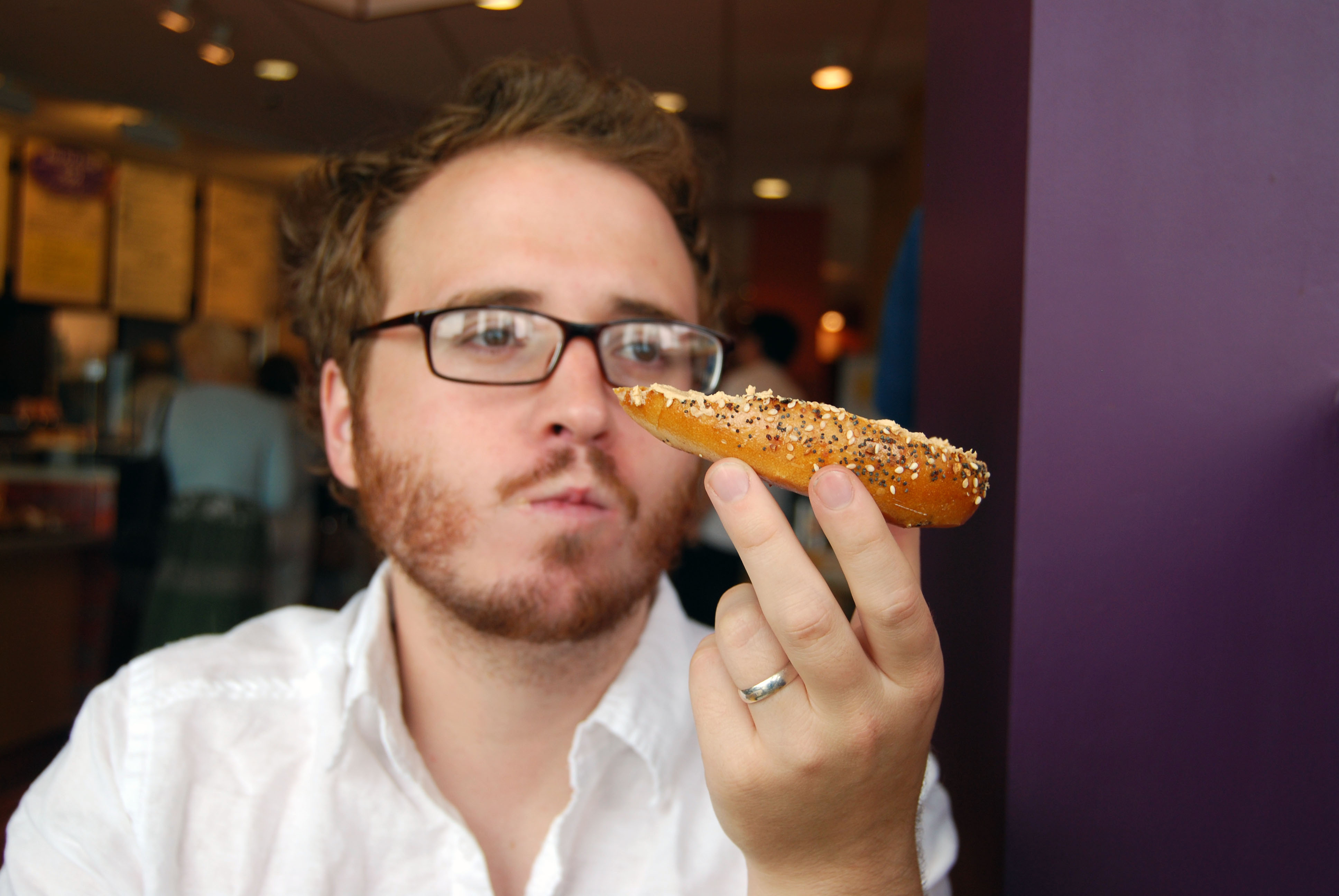 Christian Lander, author of Stuff White People Like, eating an "everything bagel" in Mar Vista, Los Angeles, California. Photo uploaded to Flickr by user "jslander." Released under Creative Commons license: Attribution 2.0 Generic.